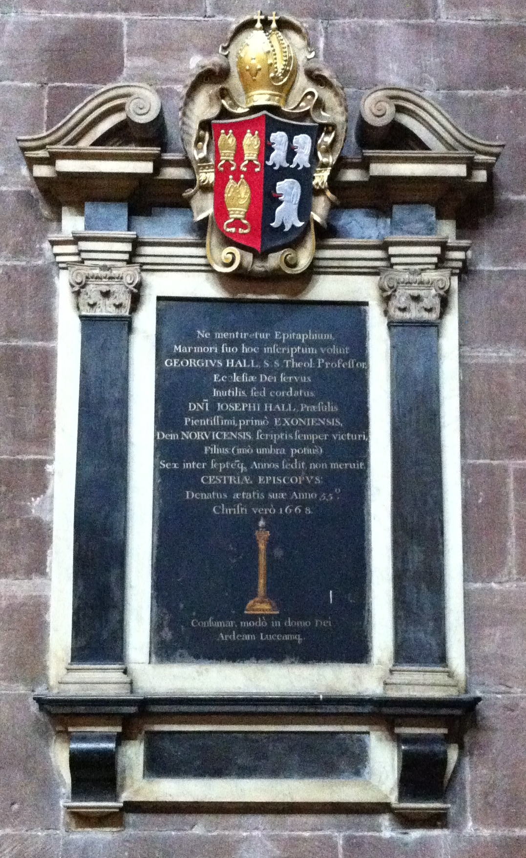 Memorial to George Hall (Bishop of Chester) (1613–1668), English Anglican bishop. Chester Cathedral. Arms: See of Chester impaling Sable, three talbot's heads erased argent (Hall).